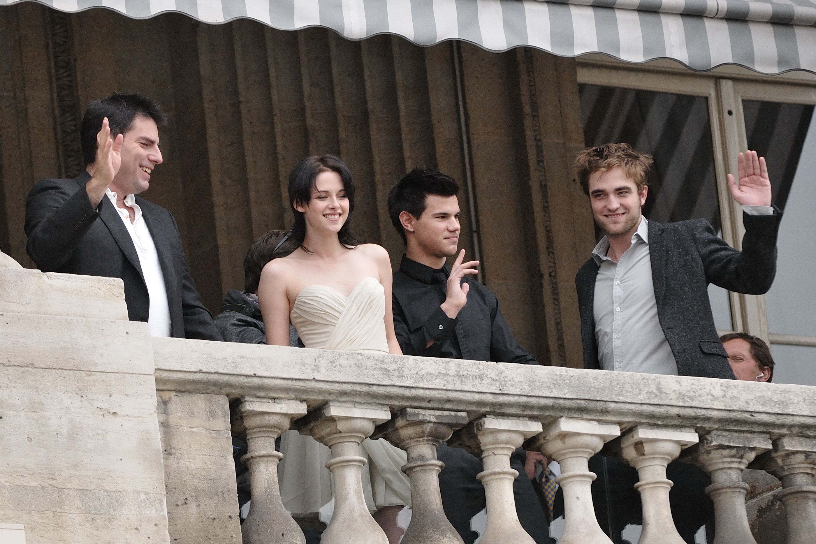 Director Chris Weitz (left), actress Kristen Stewart, actor Taylor Lautner and actor Robert Pattinson (right) attending the Twilight Saga Film New Moon (Twilight Chapitre 2 Tentation) Photocall at the Crillon Hotel in Paris, France on November 10, 2009.